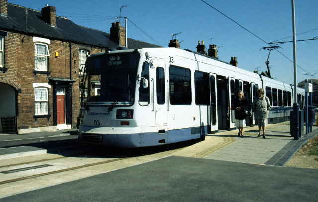 A Sheffield Supertram at the Malinbridge terminus.